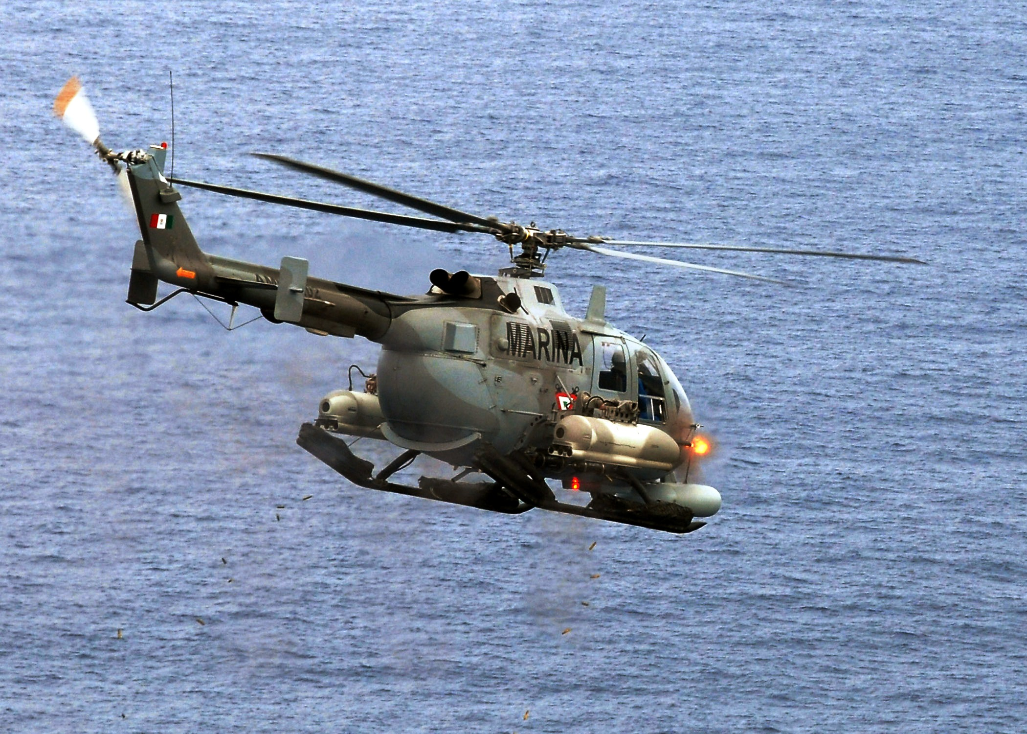 A Mexican Bölkow BO-105 helicopter fires 2.75 inch high-explosive rockets at the ex-USS Connolly (DD 979) during the sinking exercise portion of UNITAS Gold.